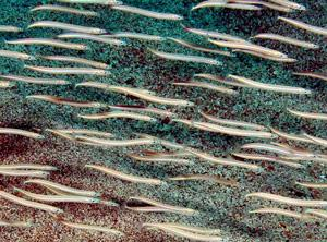 Picture of Gymnammodytes cicerelus